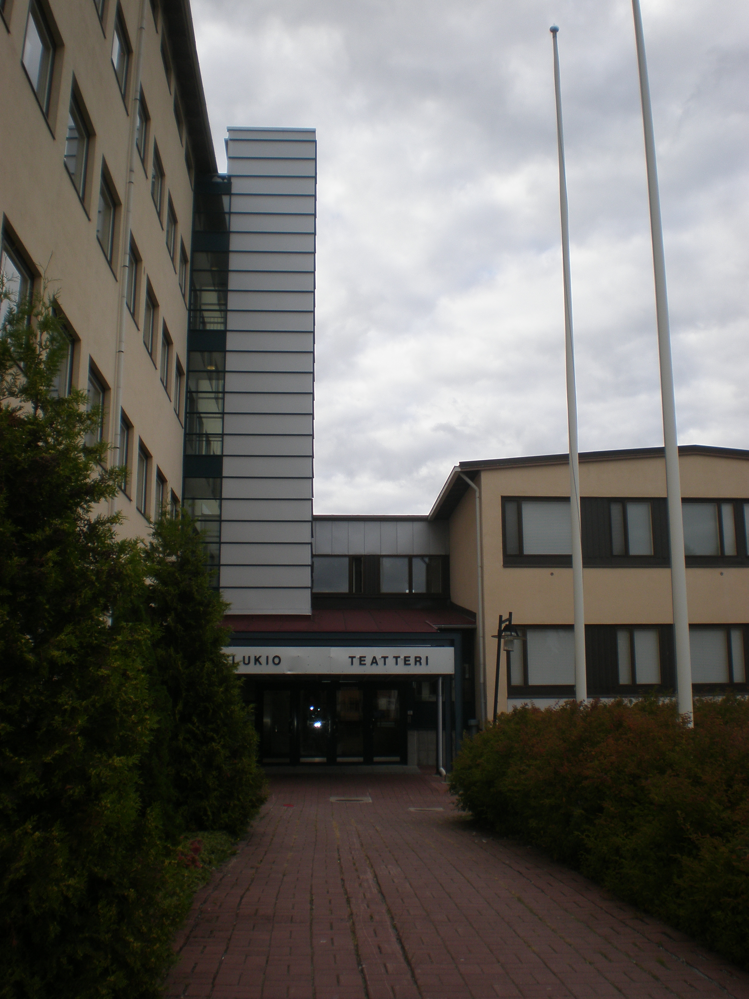 Nokia gymnasium and worker's theatre